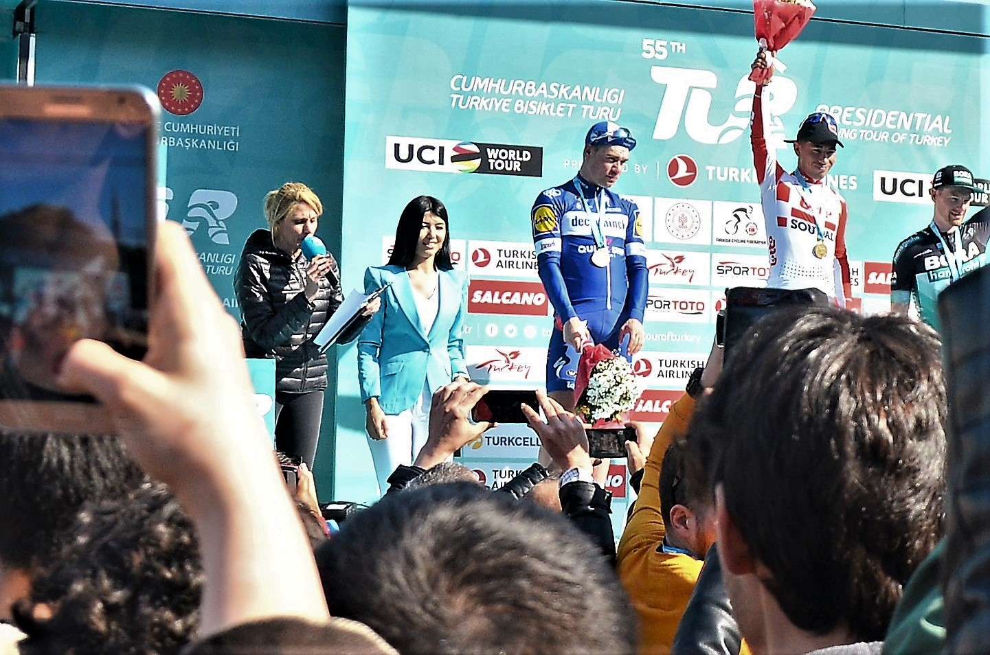 Winners of the Stage 6 (Sakarya-Istanbul) at the 55th Presidential Cycling Tour of Turkey 2019 at at the award ceremony. From left to right: runner-up Fabio Jakobsen (Deceuninck–Quick-Step), winner Caleb Ewan (Lotto–Soudal), 3rd place Sam Bennett (Bora–Hansgrohe).